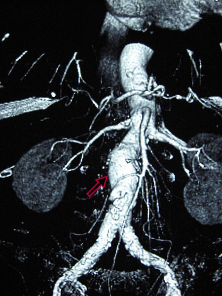 Abdominal aortic aneurysm 34 мм, Author: Milorad Dimic MD, Nis, Srbia, 2009.